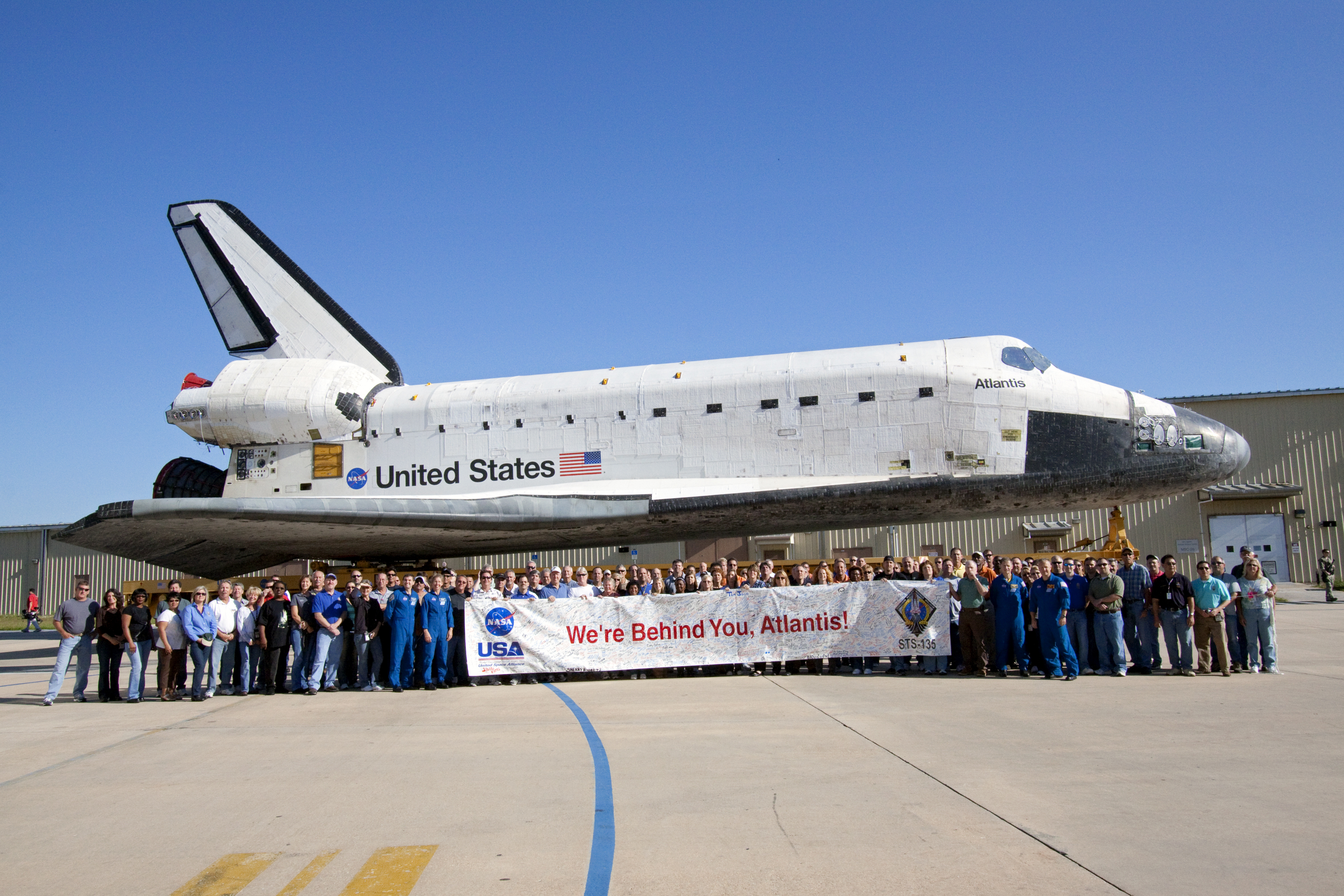 CAPE CANAVERAL, Fla. – Workers and the crew of STS-135 hold up a "We're Behind You, Atlantis" banner during the final planned move of shuttle Atlantis from Orbiter Processing Facility-1 to the Vehicle Assembly Building at NASA's Kennedy Space Center in Florida. The move called "rollover" is a major milestone in processing for the STS-135 mission to the International Space Station. Inside the VAB, the shuttle will be attached to its external fuel tank and solid rocket boosters. Commander Chris Ferguson, Pilot Doug Hurley and Mission Specialists Sandra Magnus and Rex Walheim are targeted to launch in early July, taking with them the Raffaello multipurpose logistics module packed with supplies, logistics and spare parts. The STS-135 mission also will fly a system to investigate the potential for robotically refueling existing spacecraft and return a failed ammonia pump module to help NASA better understand the failure mechanism and improve pump designs for future systems. STS-135 will be the 33rd flight of Atlantis, the 37th shuttle mission to the space station, and the 135th and final mission of NASA's Space Shuttle Program. For more information visit